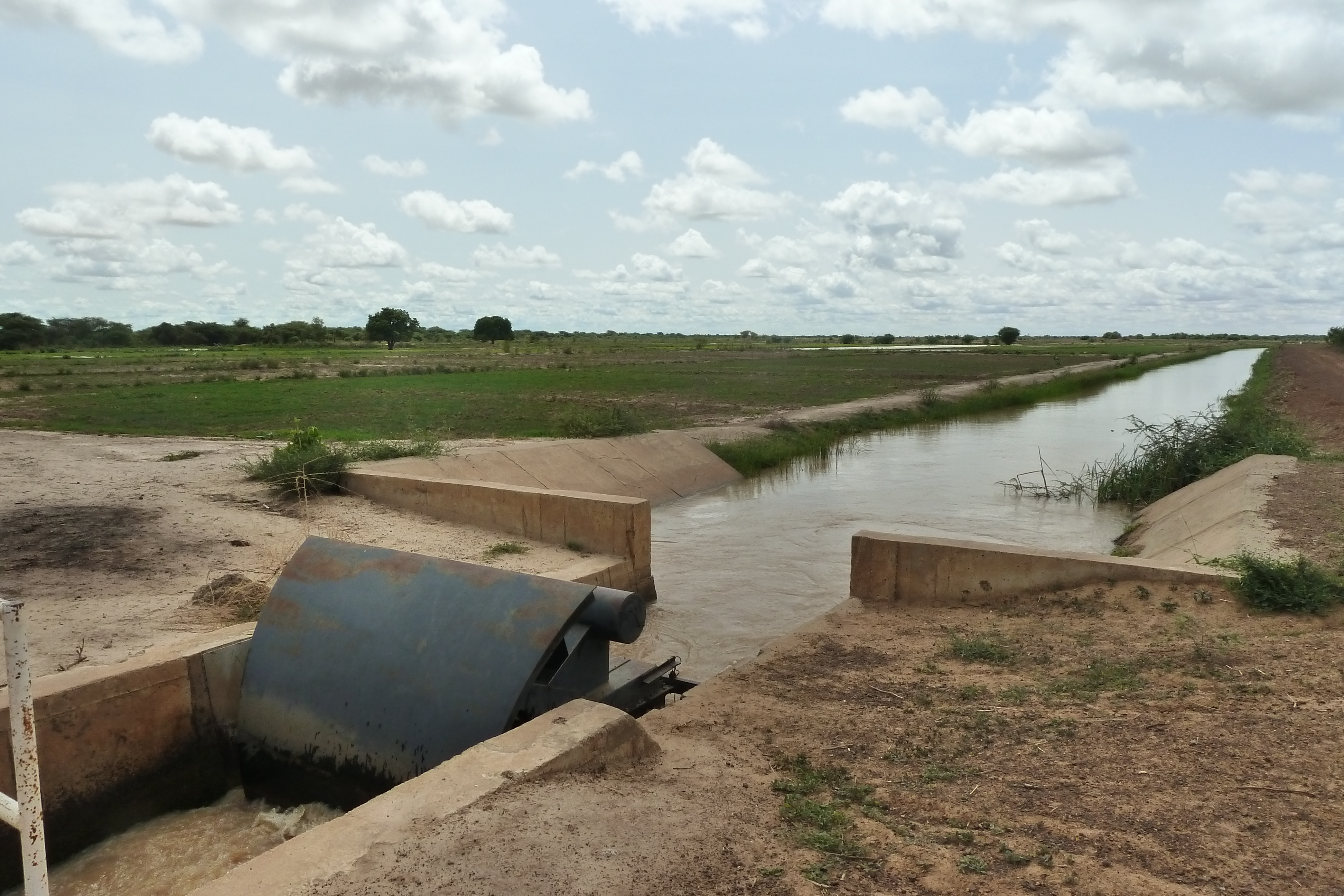 Pumping station for rice and vegetables cultivation in the Senegal River Valley